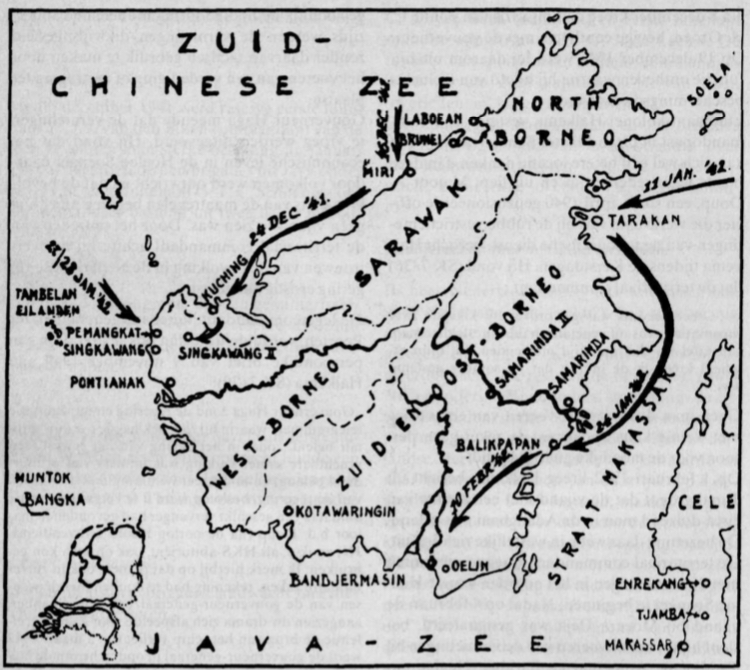 Japanese attack on Borneo, 1941-42